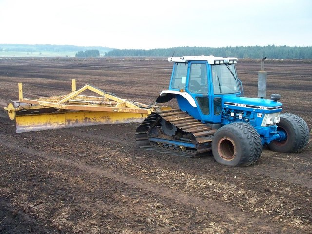 Tractor (a Ford 7810 fitted with front flotation tyres and rear tracks to avoid sinking in the boggy conditions) and grader at Ryeflat Moss